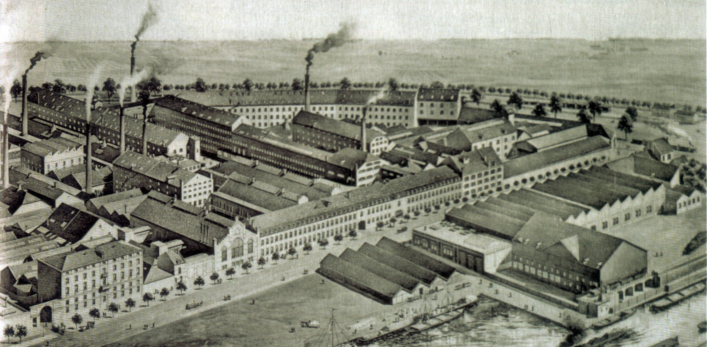 Maastricht, the Netherlands. View of the northern section of the industrial estate of Sphinx potteries in Maastricht. Drawing for a factory brochure, c 1905.